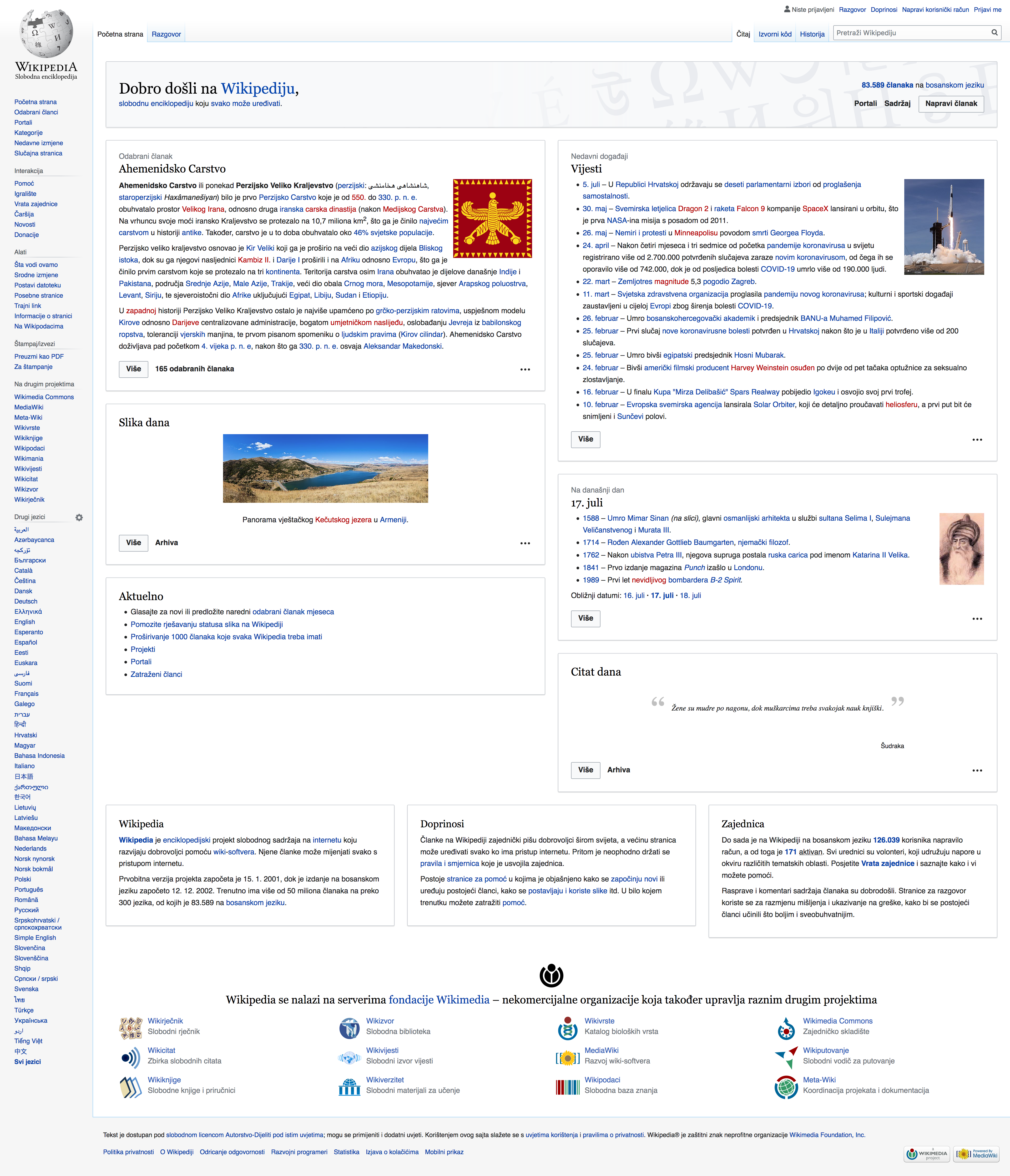 Screenshot of the Bosnian Wikipedia's